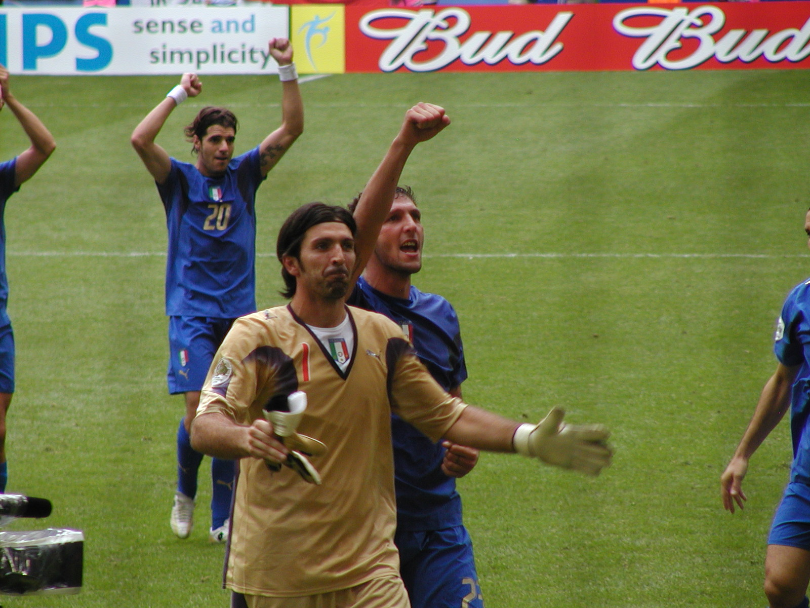 2006 FIFA World Cup, Germany. Italian national football team. Goalkeeper Gianluigi "Gigi" Buffon (n. 1), defender Marco Materazzi and midfielder Simone Perrotta (n. 20).